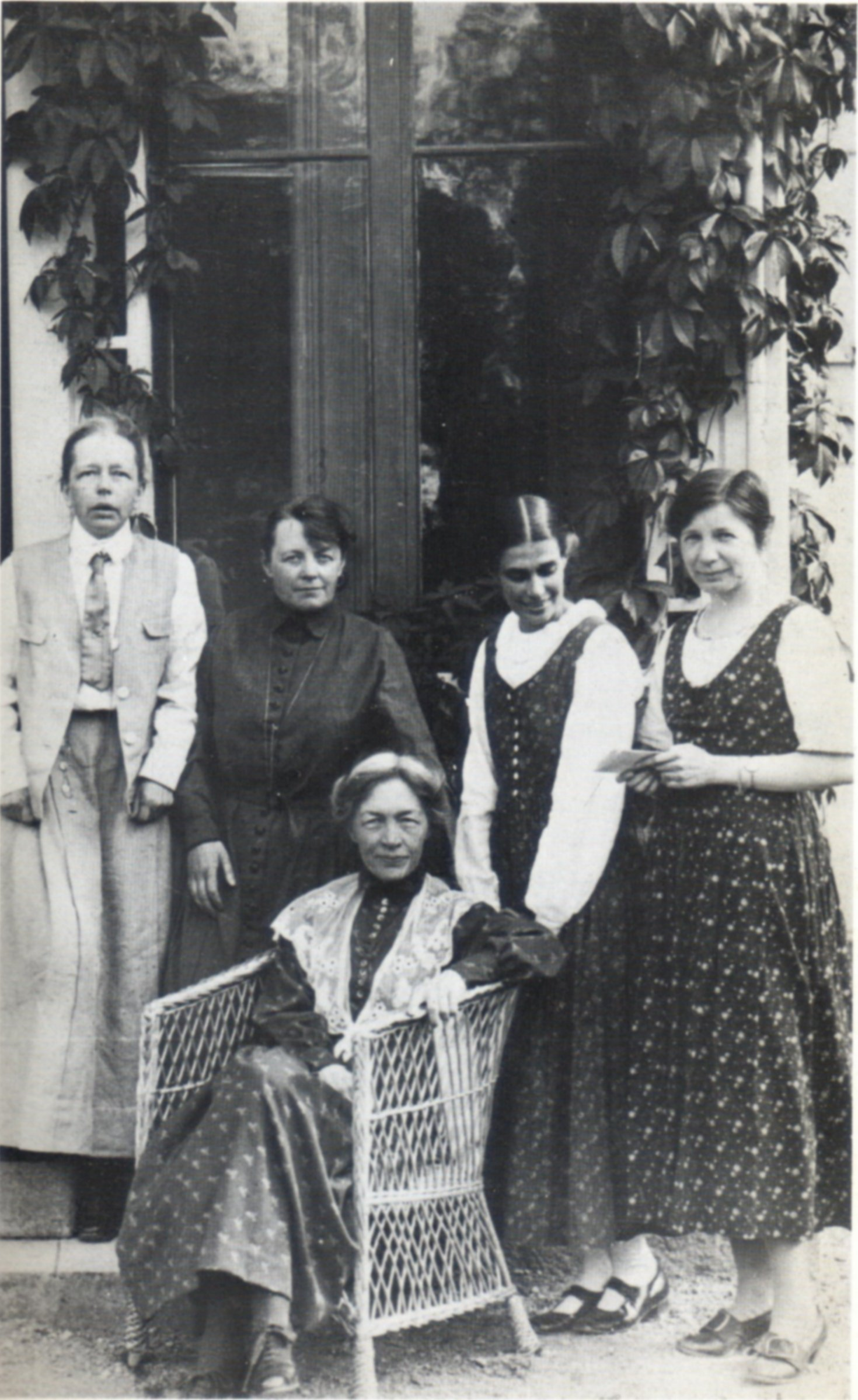 The Fogelstad group was a group of women who worked for women's rights. In 1923 they started a weekly newspaper that was published until 1936. Left to right: Elisabeth Tamm, Ada Nilsson, Kerstin Hesselgren, Honorine Hermelin, Elin Wägner.